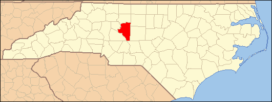 Locator Map of Davidson County, North Carolina, United States